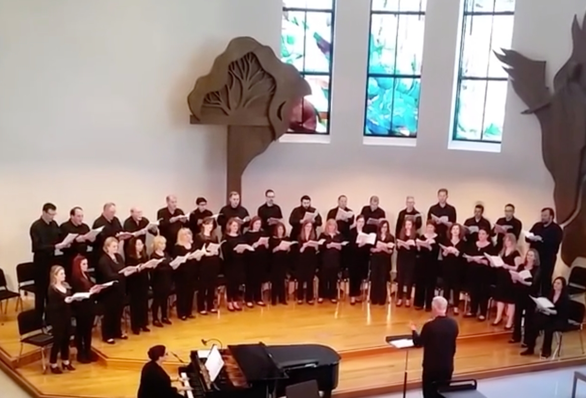 The Choir at California Lutheran University